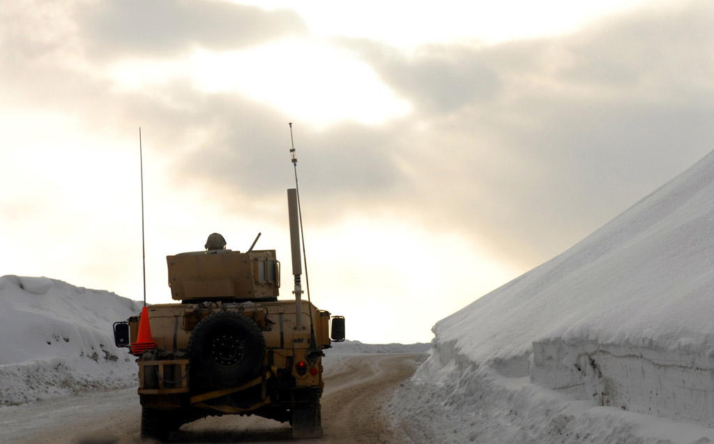 Soldiers with Alpha Company, 101st Division Special Troop Battalion, 101st Airborne Division drive toward Afghanistan's Salang tunnel in the Hindu Kush mountain range, Friday. The A Co. Soldiers were checking on the security efforts for the tunnel. See more at Army.mil